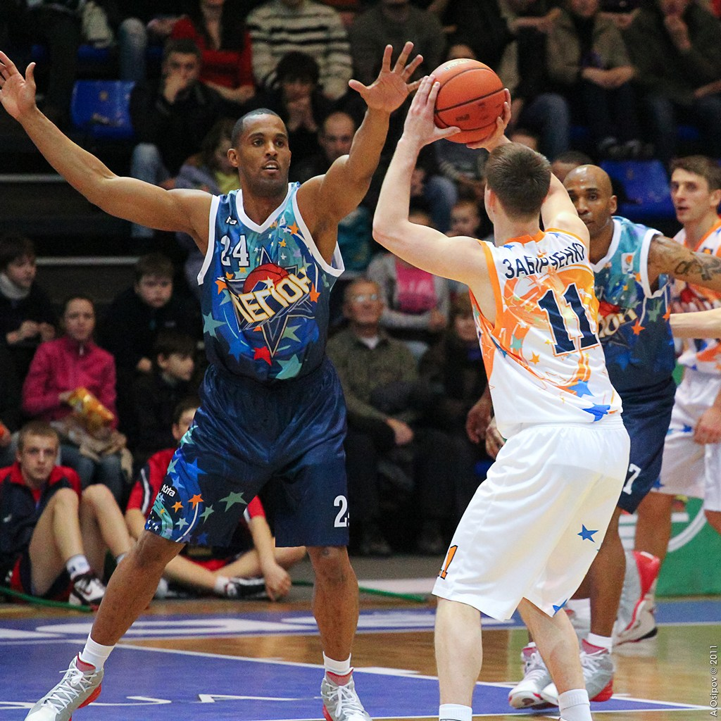 Chris Owens defending against Dmytro Zabirchenko in the Ukrainian Superleague All-Star game